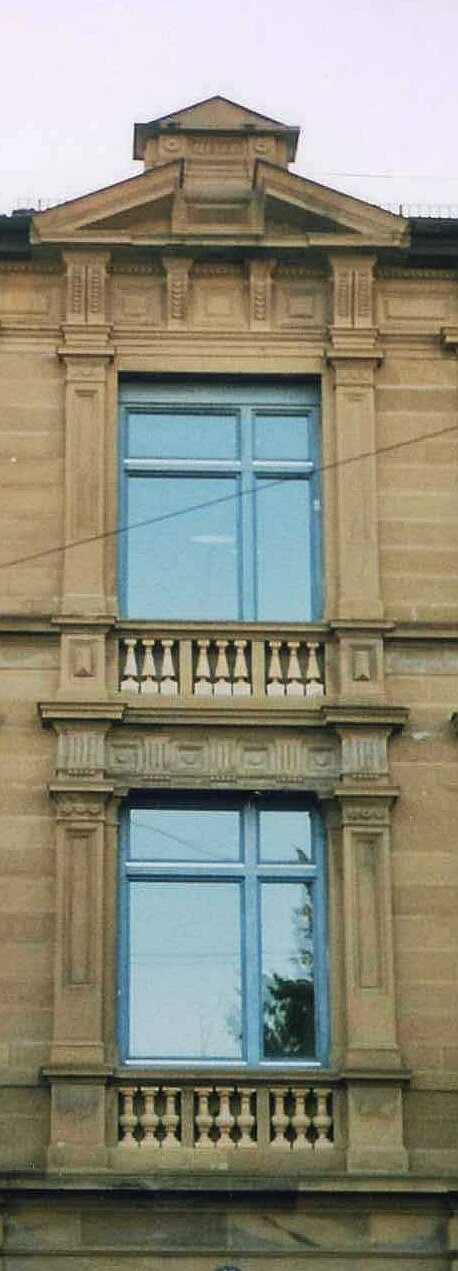 Heilbronn